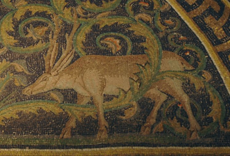 Deer (Mosaic in Galla Placidia Mausoleum)